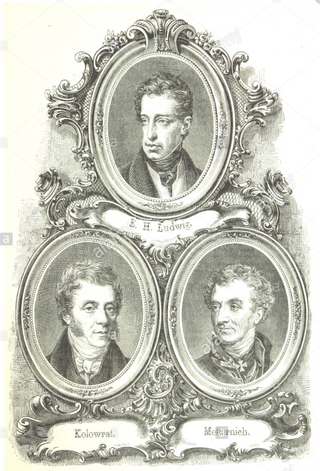 de facto government of the Empire from 1836 to 1848. This photo shows Archduke Ludwig, Count Kolowrat, and Prince Metternich